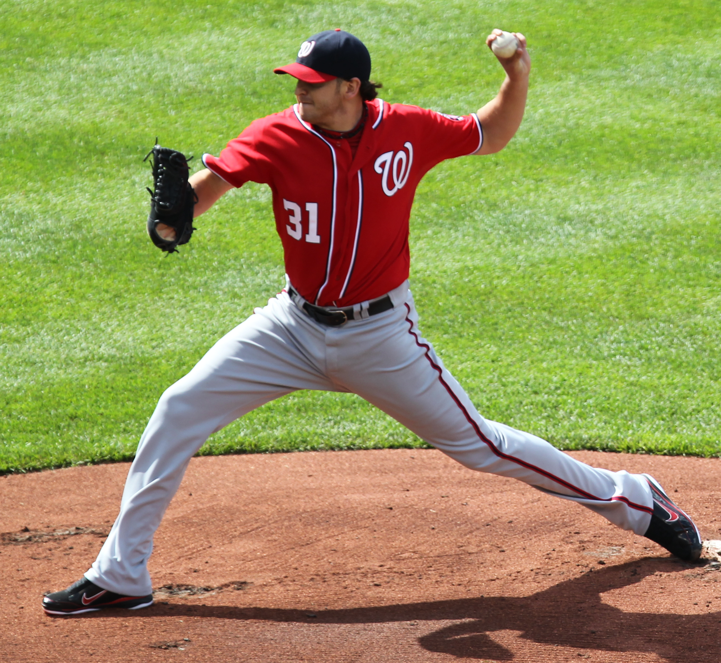 Washington Nationals at Baltimore Orioles May 21, 2011.